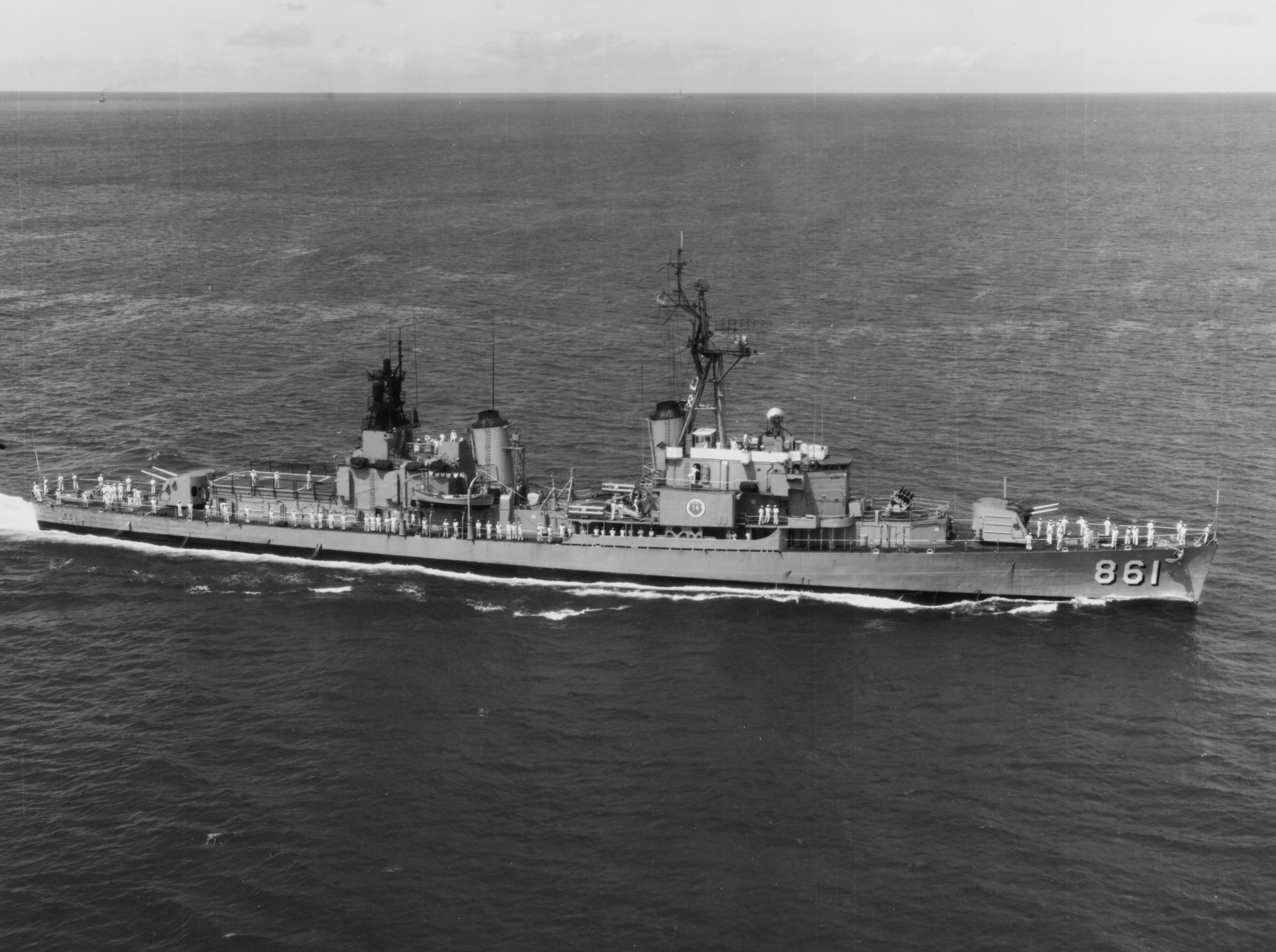 The U.S. Navy destroyer USS Harwood (DD-861) photographed while serving with Destroyer Squadron 14 (DESRON 14), 1962-1972. Harwood underwent the Fleet Rehabilitation and Modernization (FRAM) overhaul at the New York Naval Shipyard between 2 May 1961 and 2 February 1962 and shows the typical appearance of a FRAM II Gearing-class destroyer.